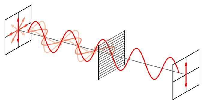 polaroid中文（中国大陆）: 偏振片原理